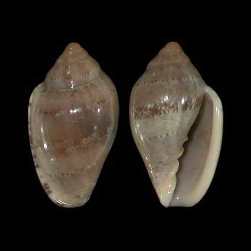 Species: Marginella ornata Redfield, 1870 Distribution: Cape St. Francis to Southern Natal data: scuba 25m, on reef Koffee Bay, Transkei. South Africa